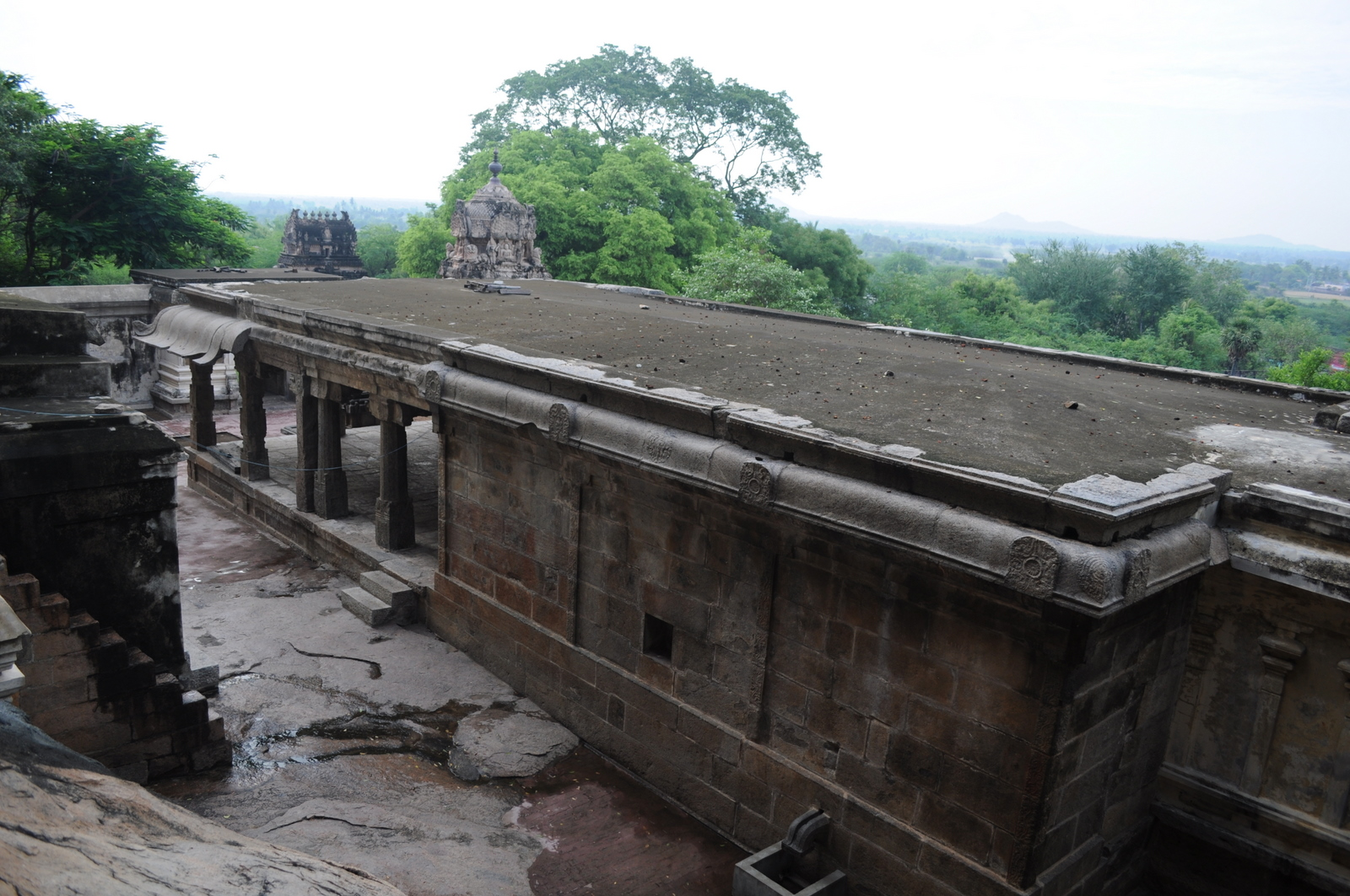 This view, taken from the rocks above, shows the upper, latter or westernmost temple at Tirumalai, built in the 16th century for Mahaveera. Tirumalai is a Jain mountain/temple complex near Polur in Tamil Nadu, India.